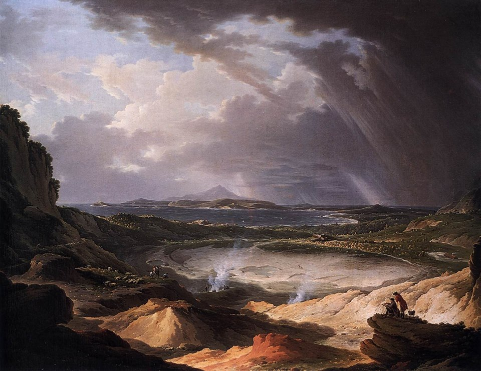 Forum_Vulcani - Pozzuoli - by_Michael_Wutki